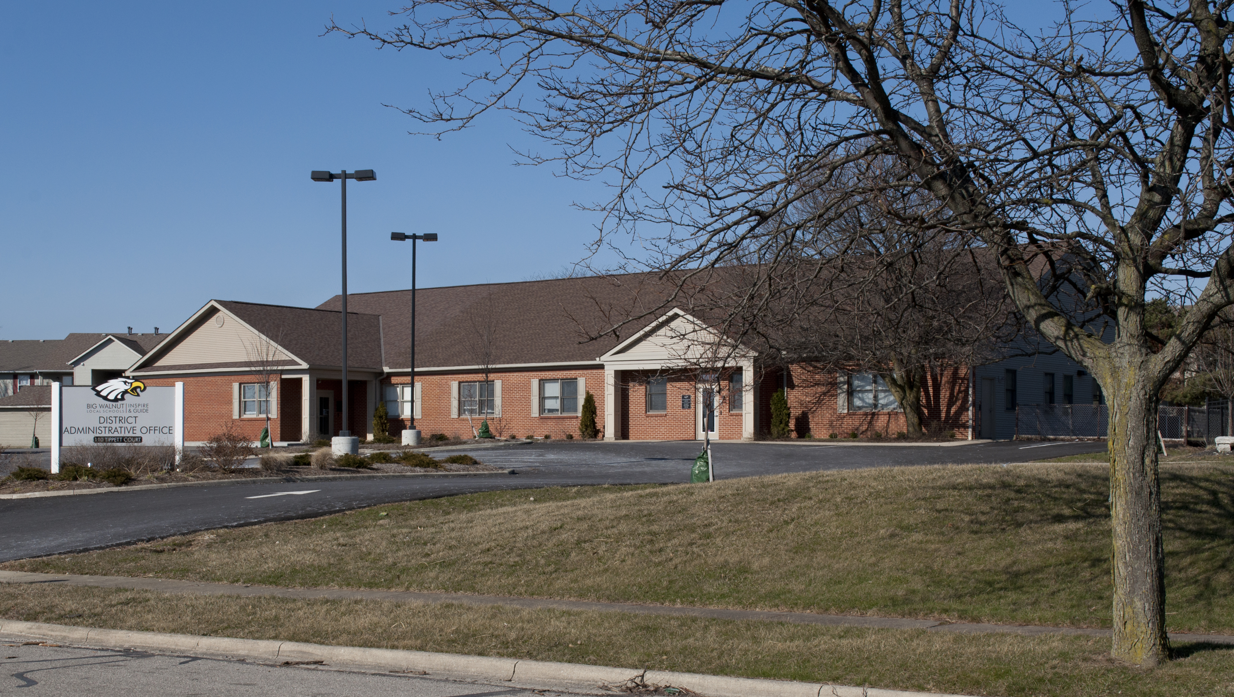 Big Walnut School District Administrative Office located in Sunbury, Ohio.